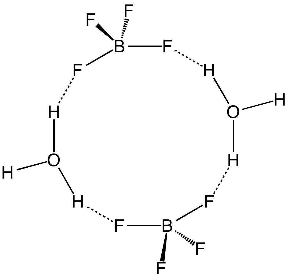 subunit of crystal structure of H3OBF4